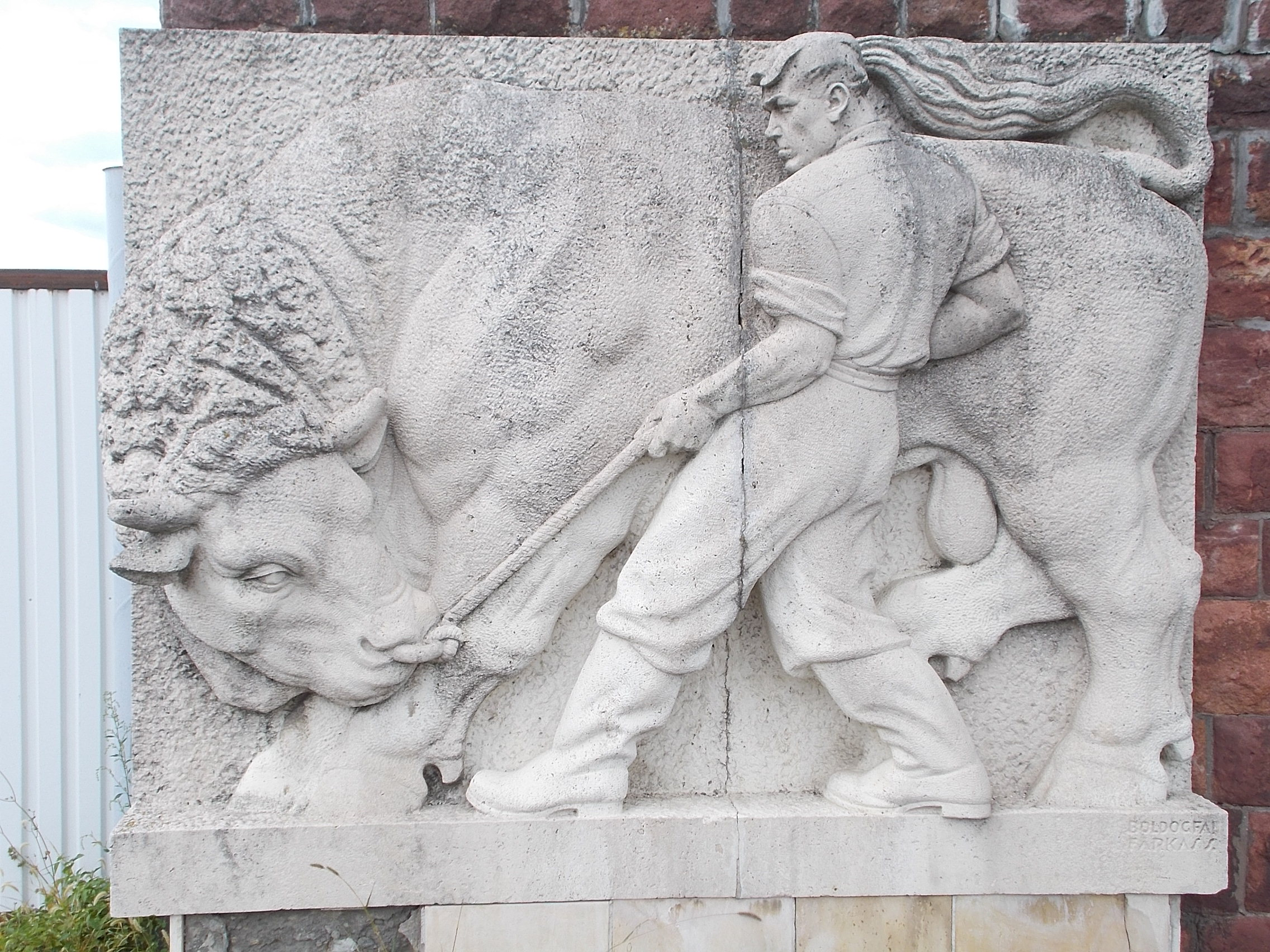 Bull leading by Sándor Boldogfai Farkas (1956). socialist realism-Tapolcai út, Keszthely, Zala County, Hungary.